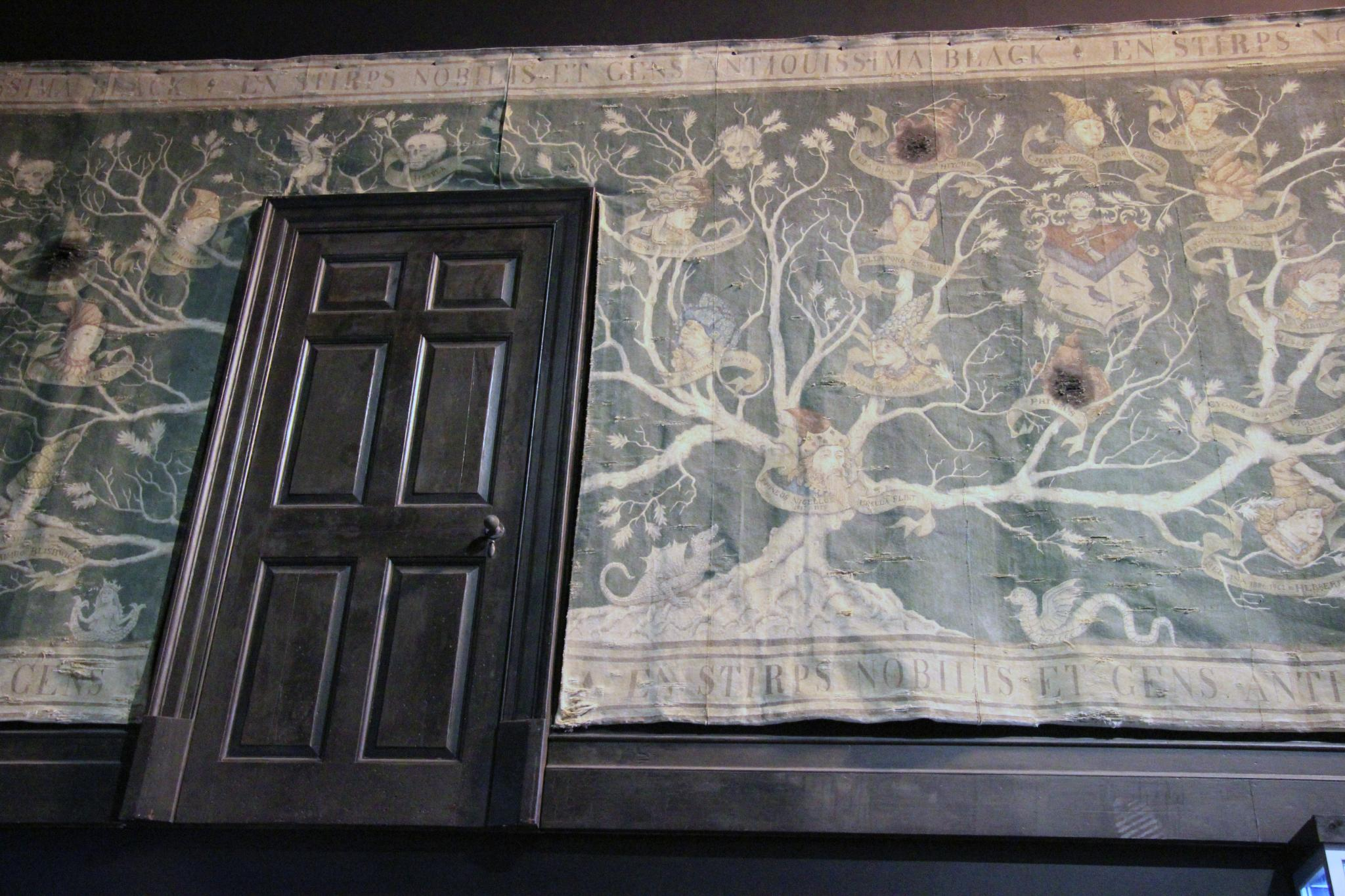 Warner Bros. Studio Tour London: The Making of Harry Potter.